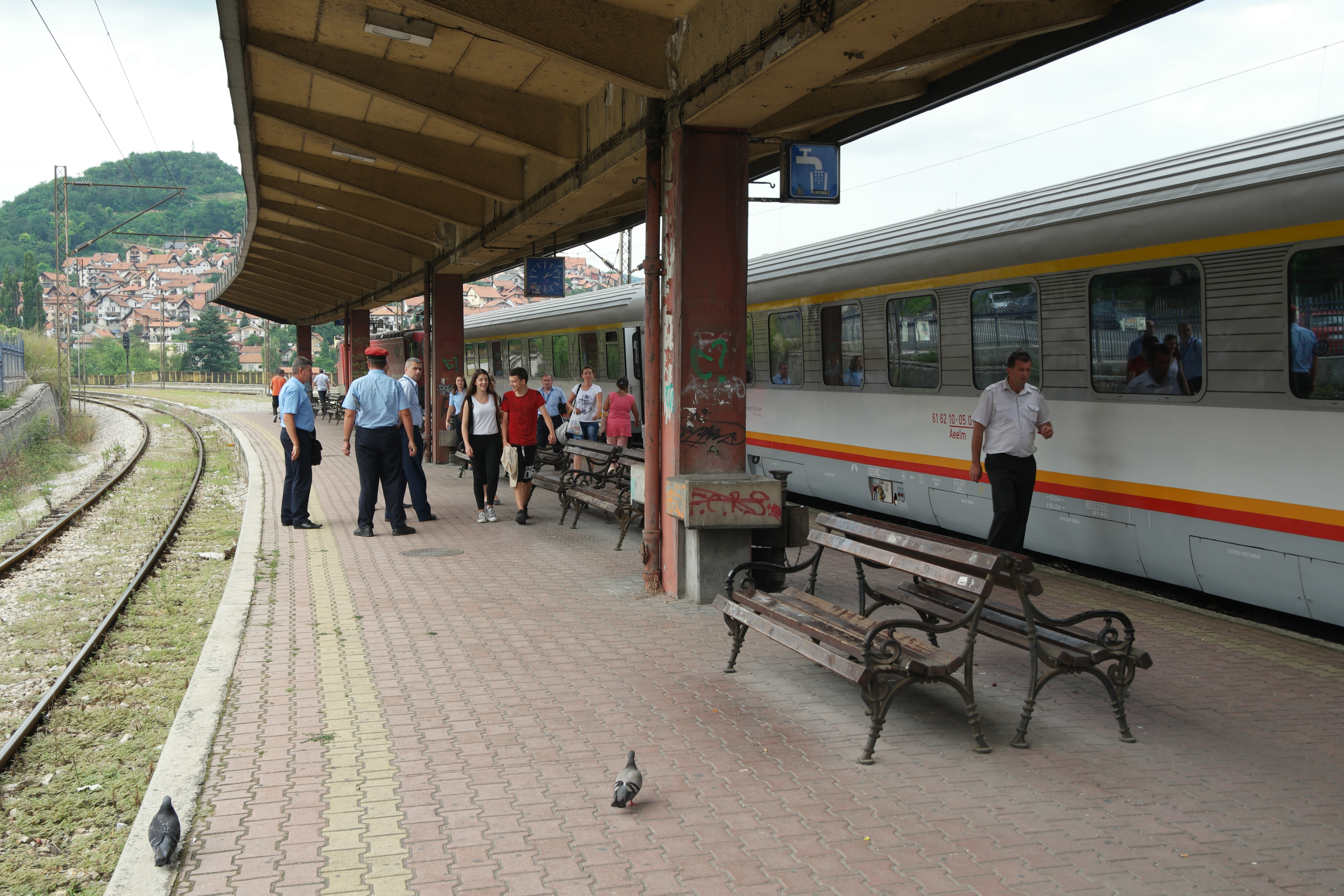 Uzice railway station